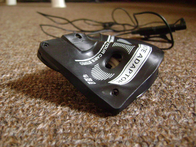 Original description: If you are at KSA. Don't leave the tape inside the car itself. Just my father forgot the tape inside the car for a day, then he found this tape like that !! =D Comment by user:Retired electrician: Andrew was mistaken. There's no tape: it's an electronic cassette adapter marketed for CD users (hence 'CD Car Cassette Adaptor' label), taking in headphone- or line-level analog signal from any external audio source. As of 2020, it is stil sold at aliexpress for two dollars US. Location: at home in Al-Muzahimiyah, 50km SW of Riyadh, Saudi Arabia Note: Focusing like that need a low ISO, and the maximam ISO of my cam is just 1000, so this one of the camera's benifits lol